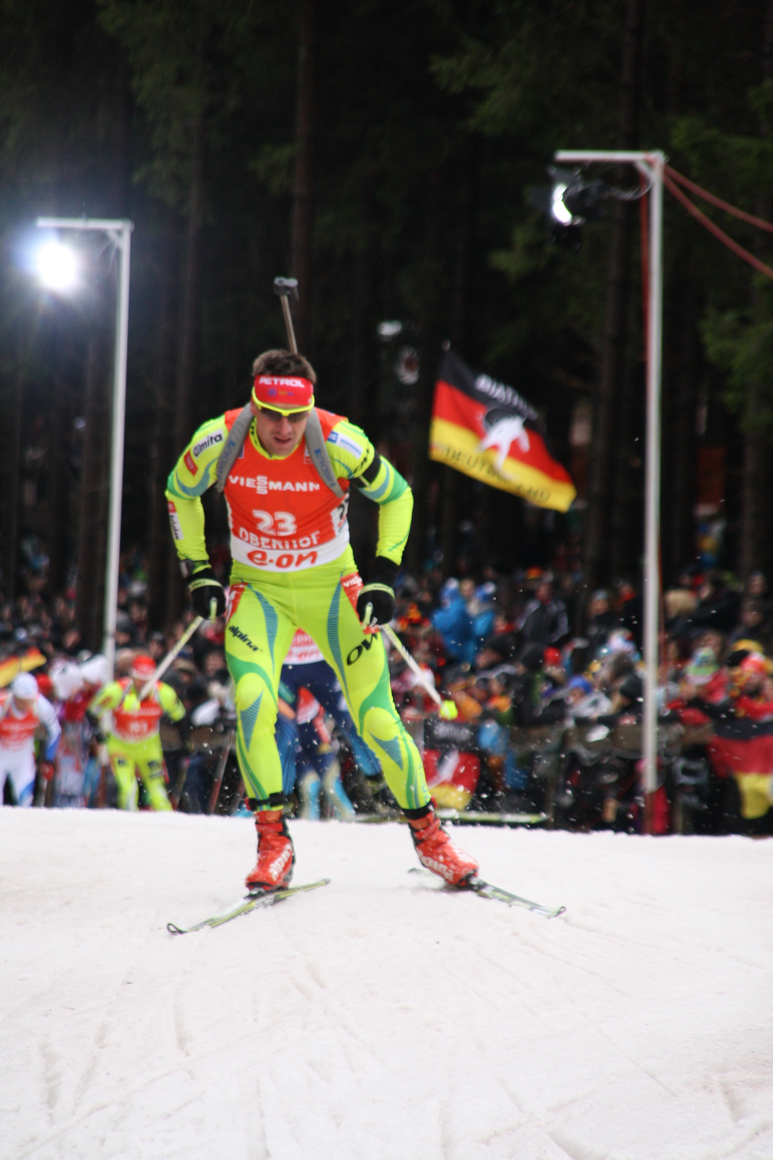 Janez Marič at Biathlon World Cup Oberhof 2014 - Mens Pursuit